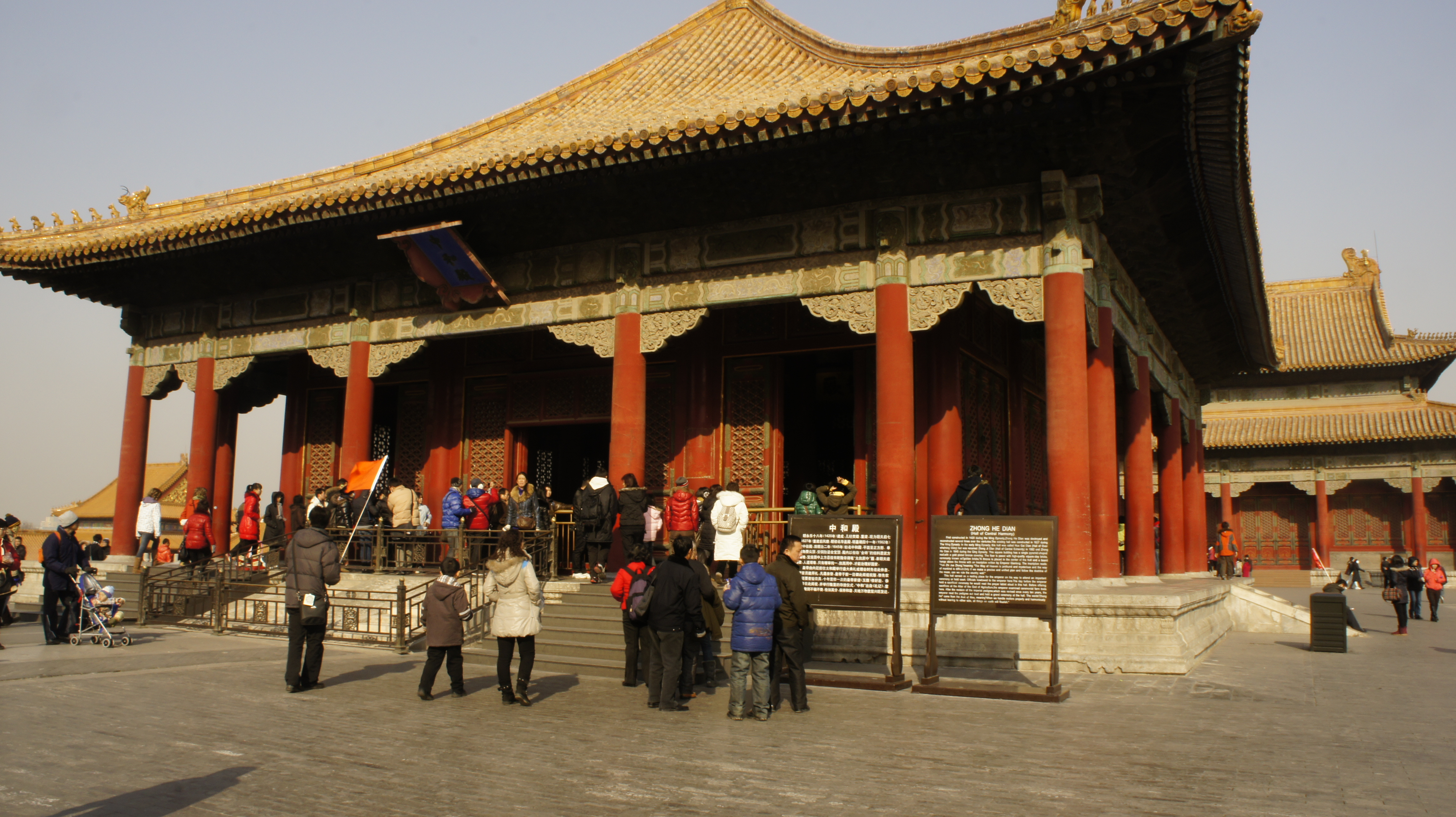 (view NW) Hall of Central Harmony of the Forbidden City